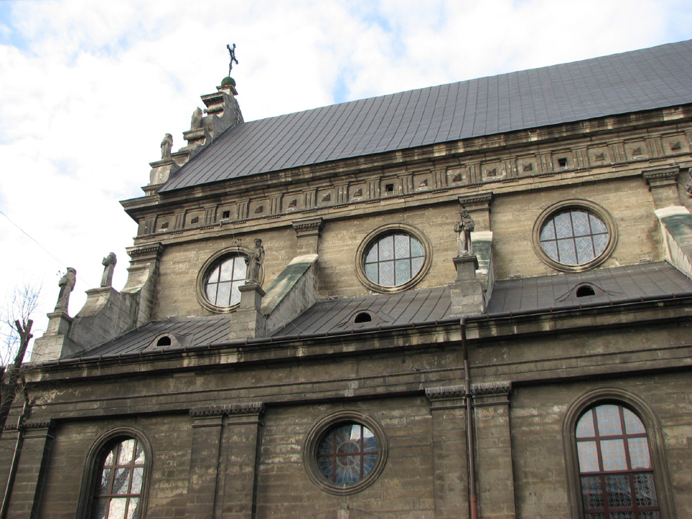 Bernardine church and monastery in Lviv